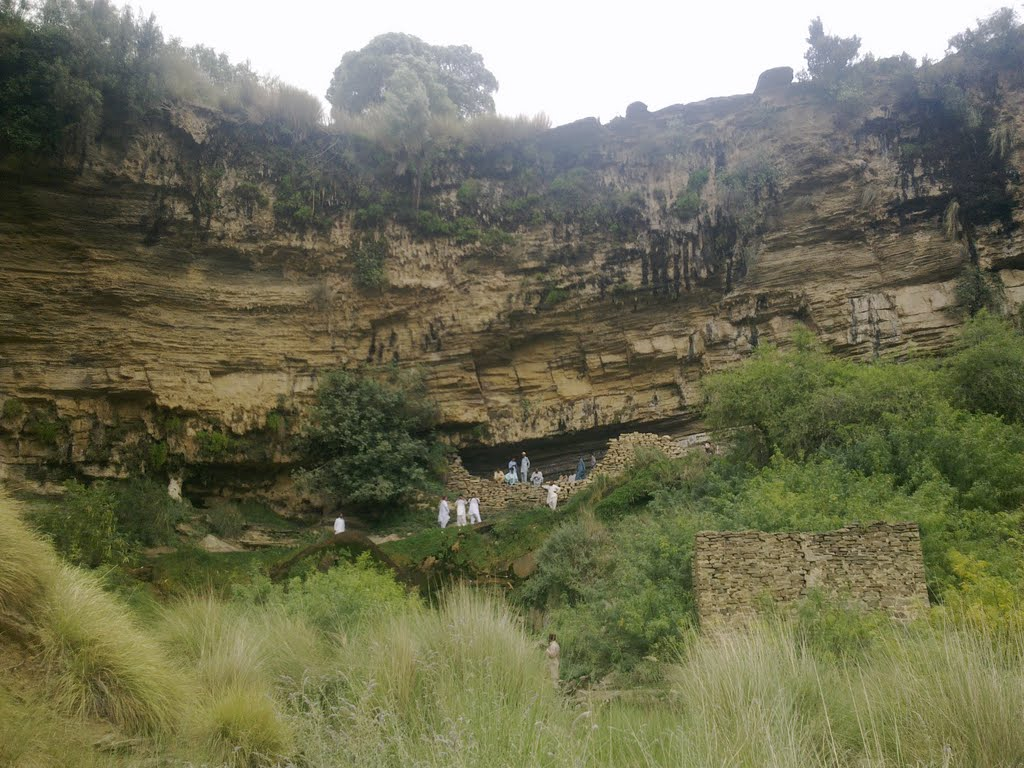 Water Fall, fort munro